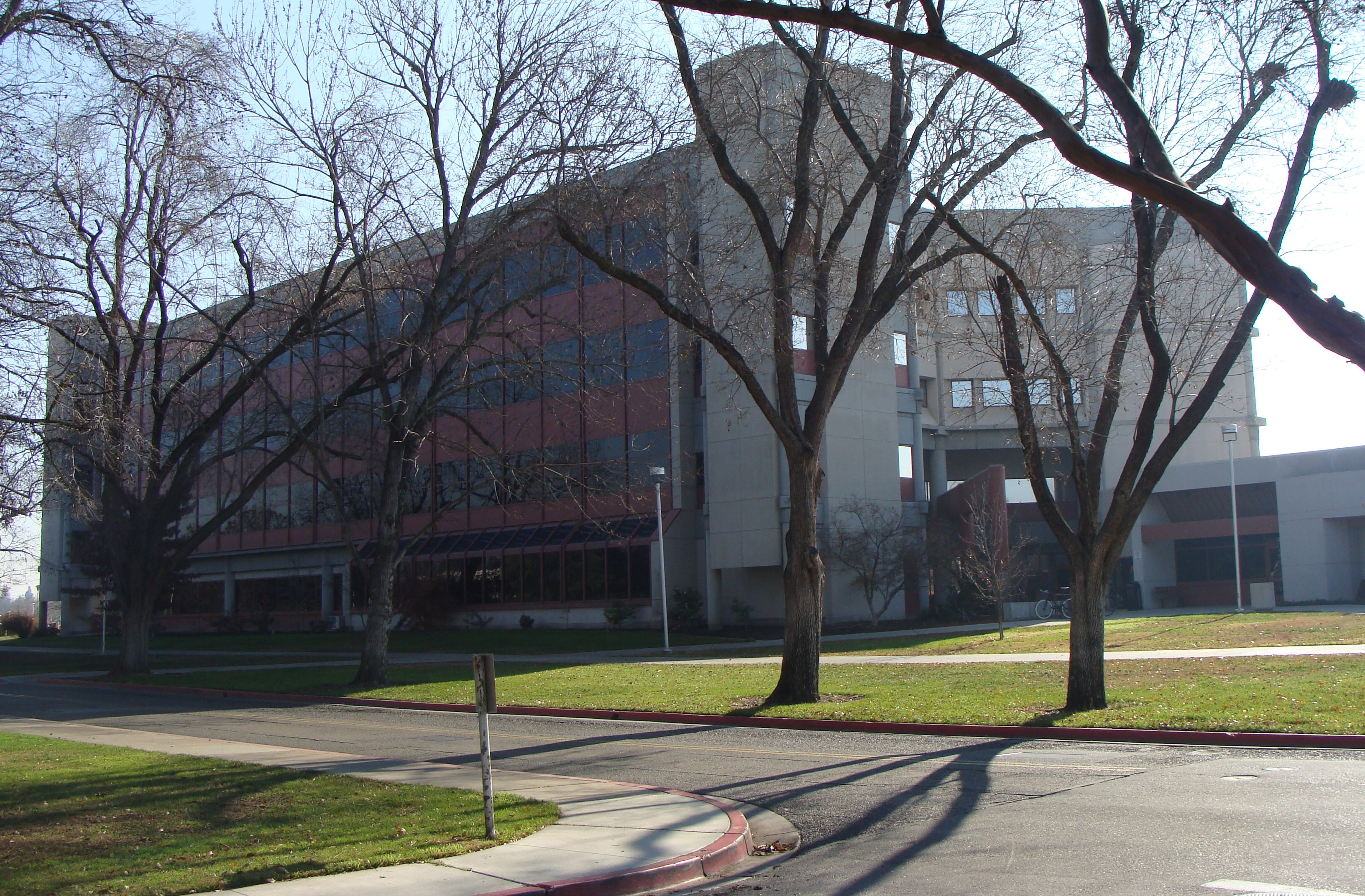 California State University, Fresno. Kremen School of Education and Human Development.